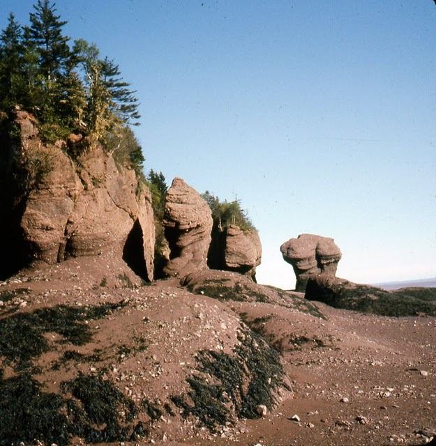 Rock formations at the Bay of Fundy, Canada.